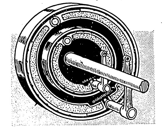 1911 Rover 12 rear brake drums two concentric drums, outer for foot pedal inner for handbrake